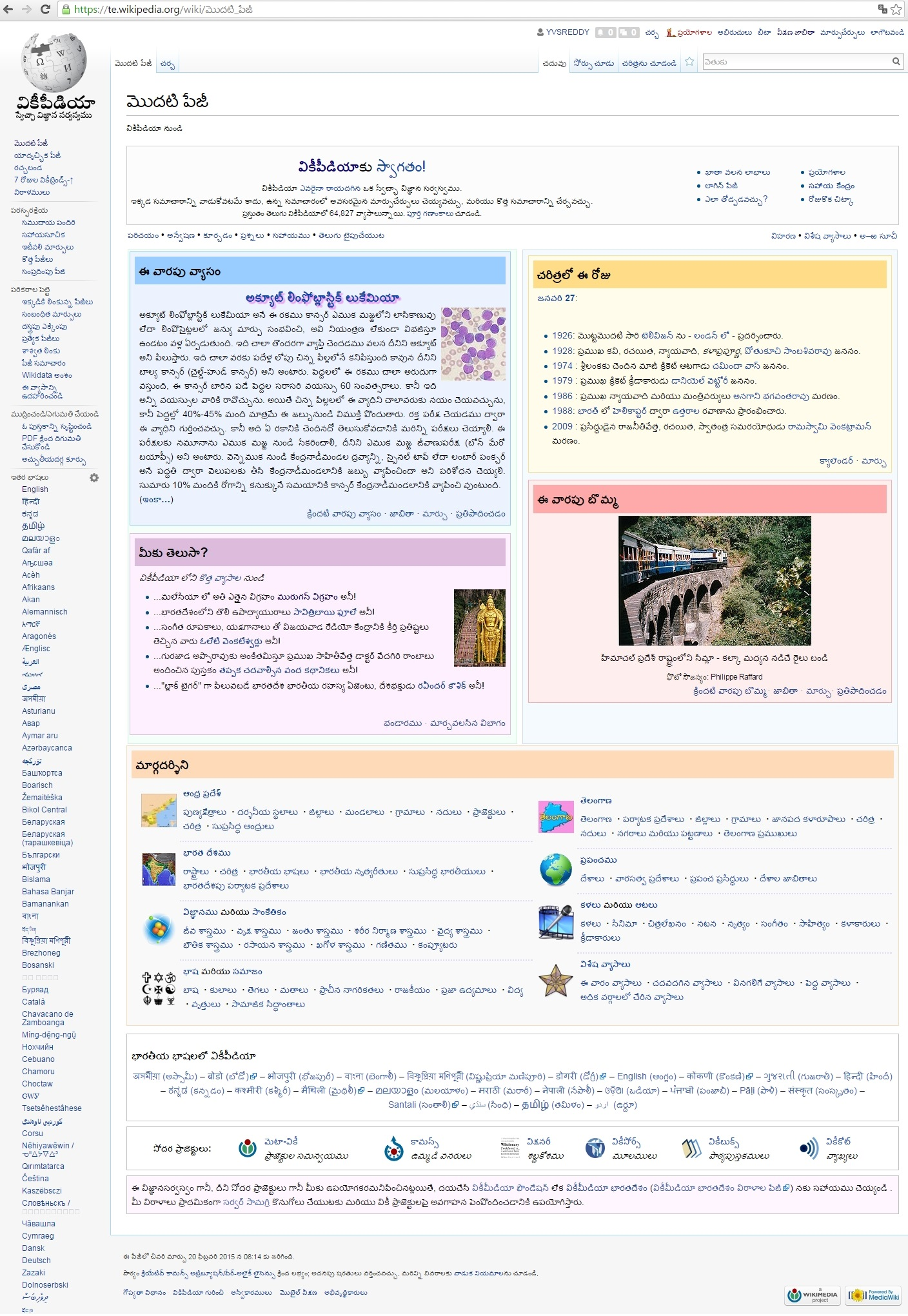 The home page of the Telugu Wikipedia